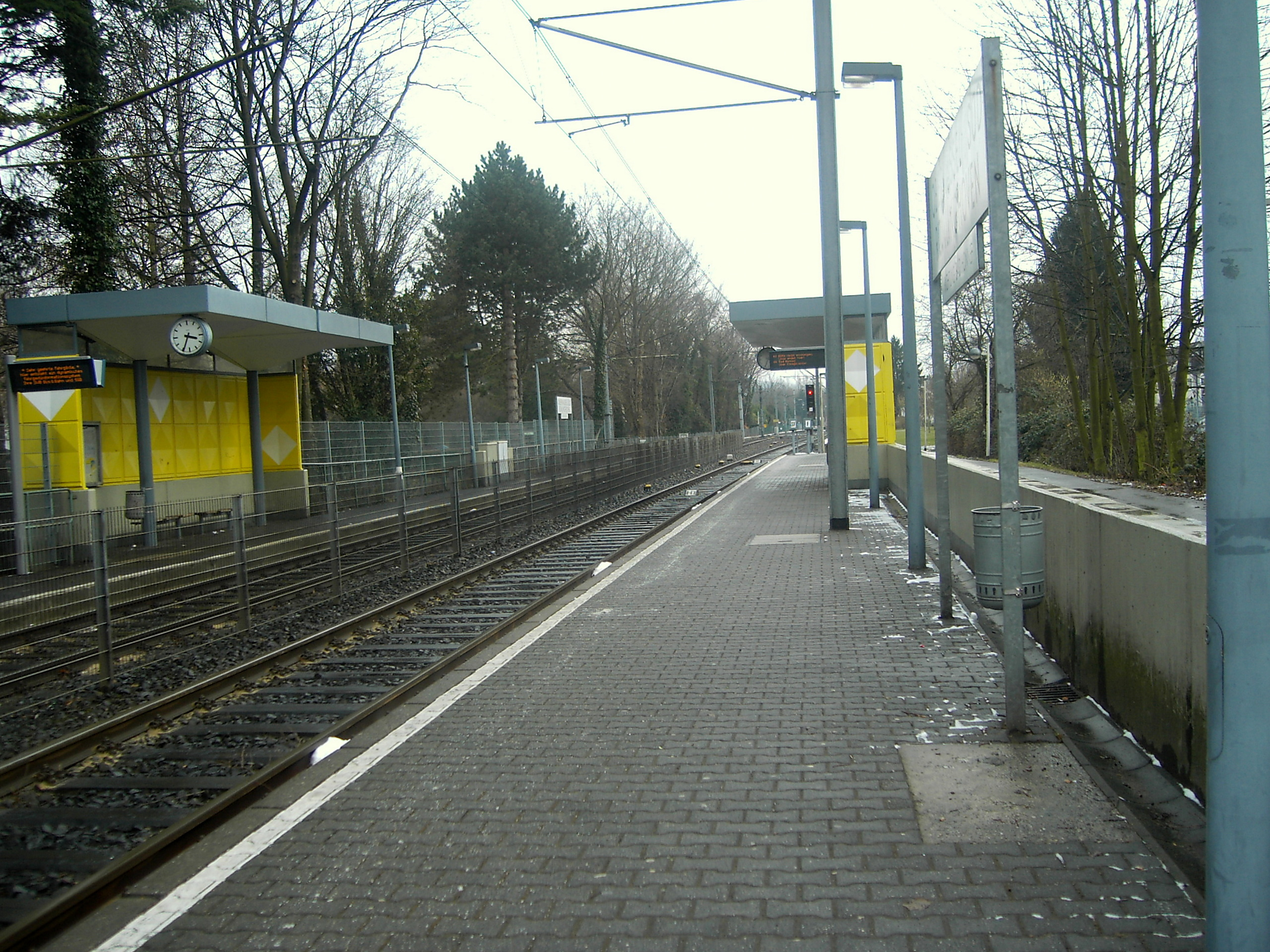 Urban railway stop Oberkassel Süd/Römlinghoven of the Siebengebirgsbahn in Bonn-Oberkassel.